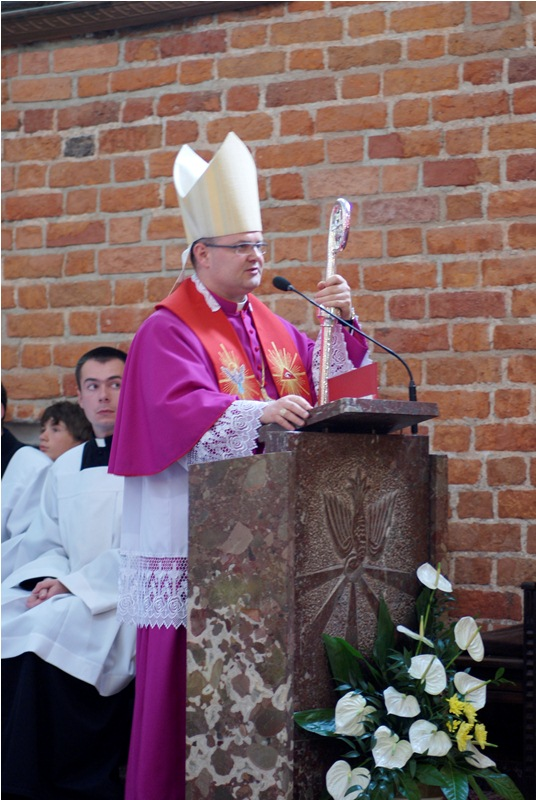 Bishop Wieslaw Smigiel